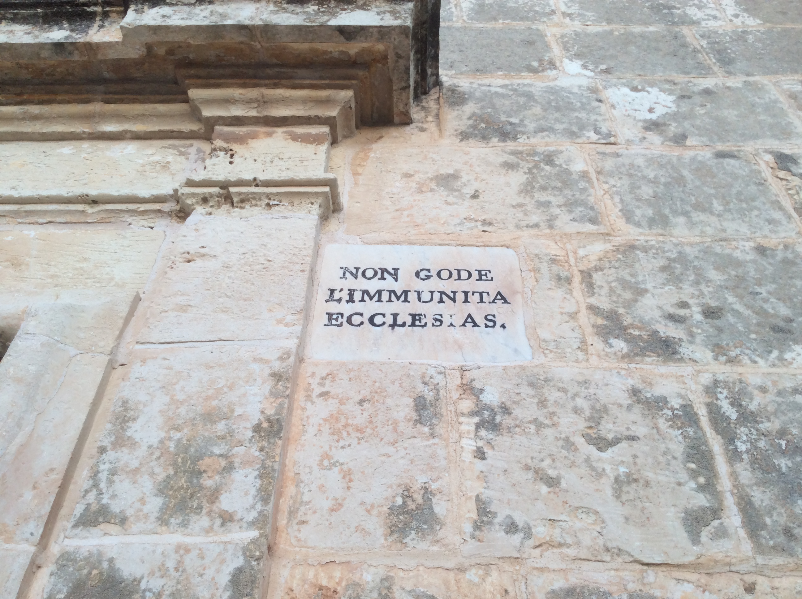 2016 Buildings in Malta